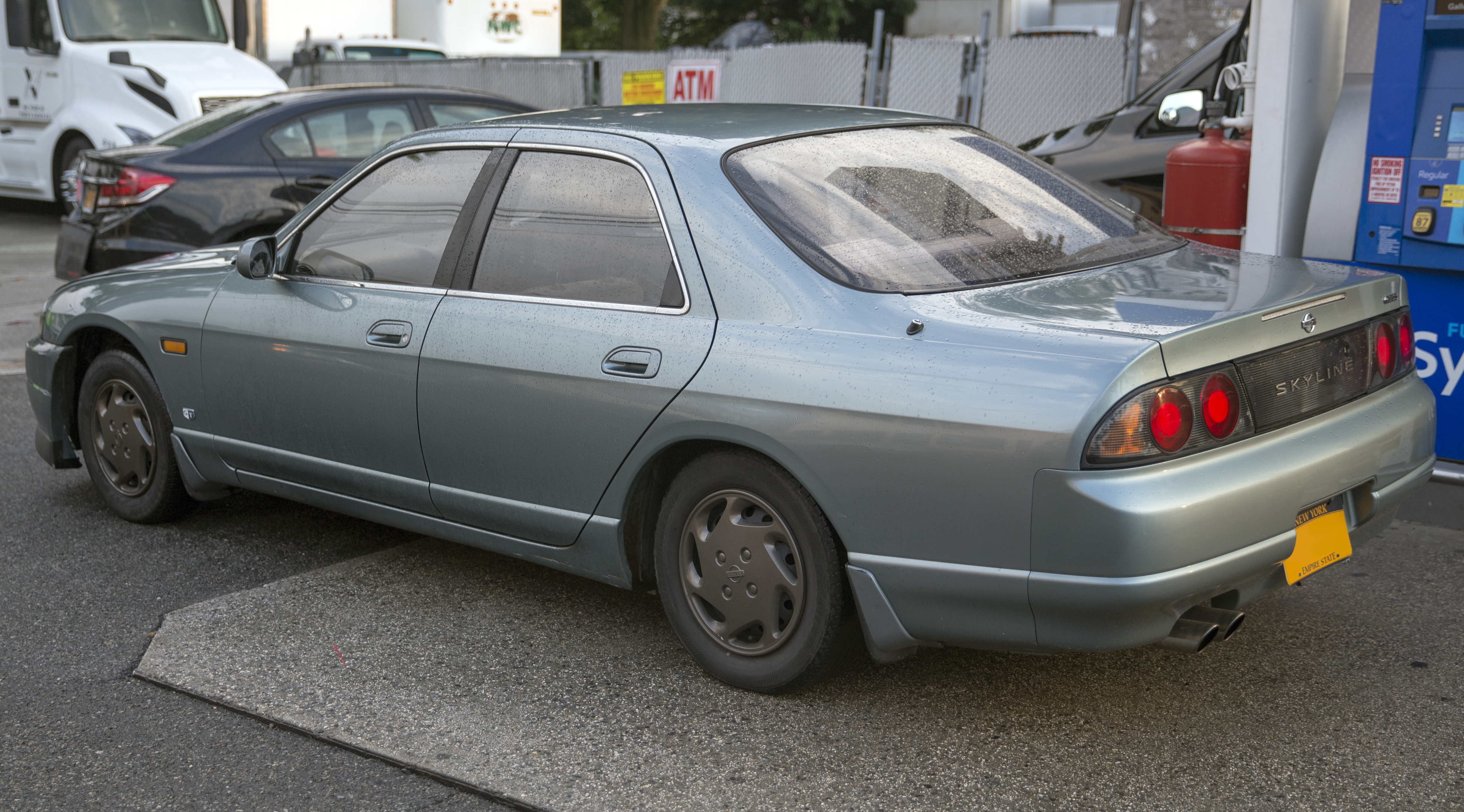 A 1994 Nissan Skyline GTS four-door sedan in Jamaica, Queens, NY. 2-liter N/A engine, not a fast car and the hubcaps aren't doing it any favors but seeing it made my heart beat faster. A front GT-R-style bumper hints at the indignities that are surely about to come to this poor sedan.